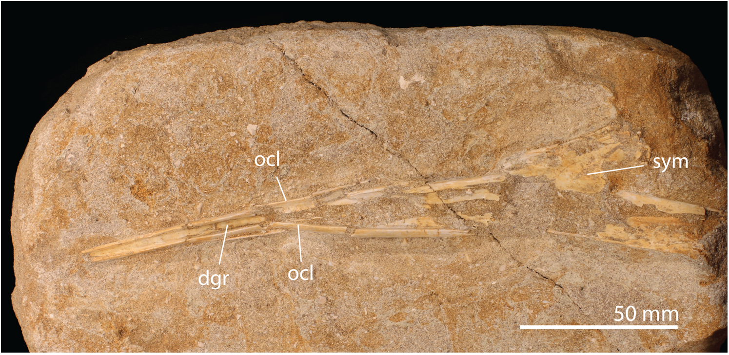 Alcione elainus FSAC-OB 156 mandible. Abbreviations: dgr, dorsal groove; ocl, occlusal ridge; sym, symphysis.